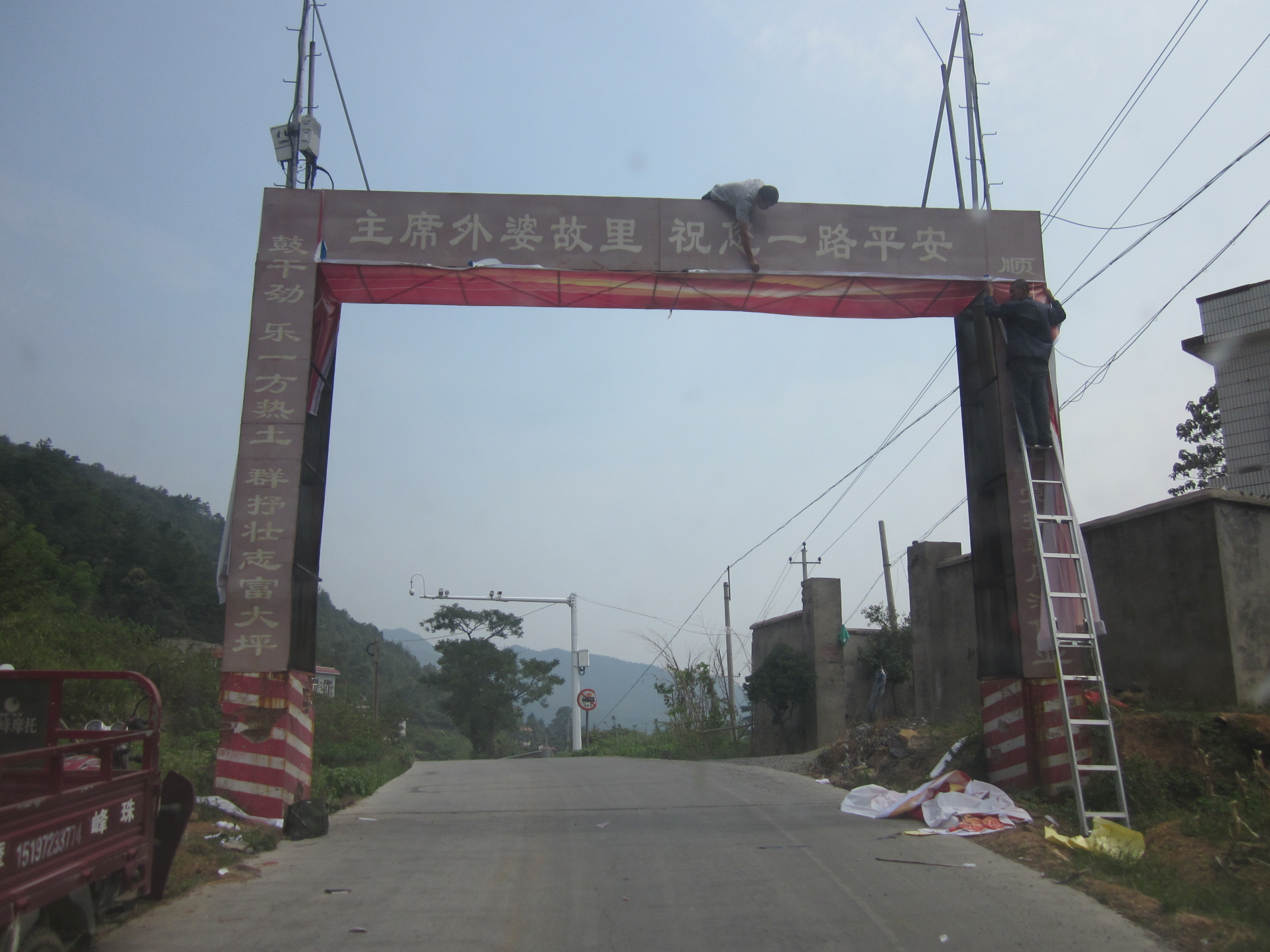 Daping Township (simplified